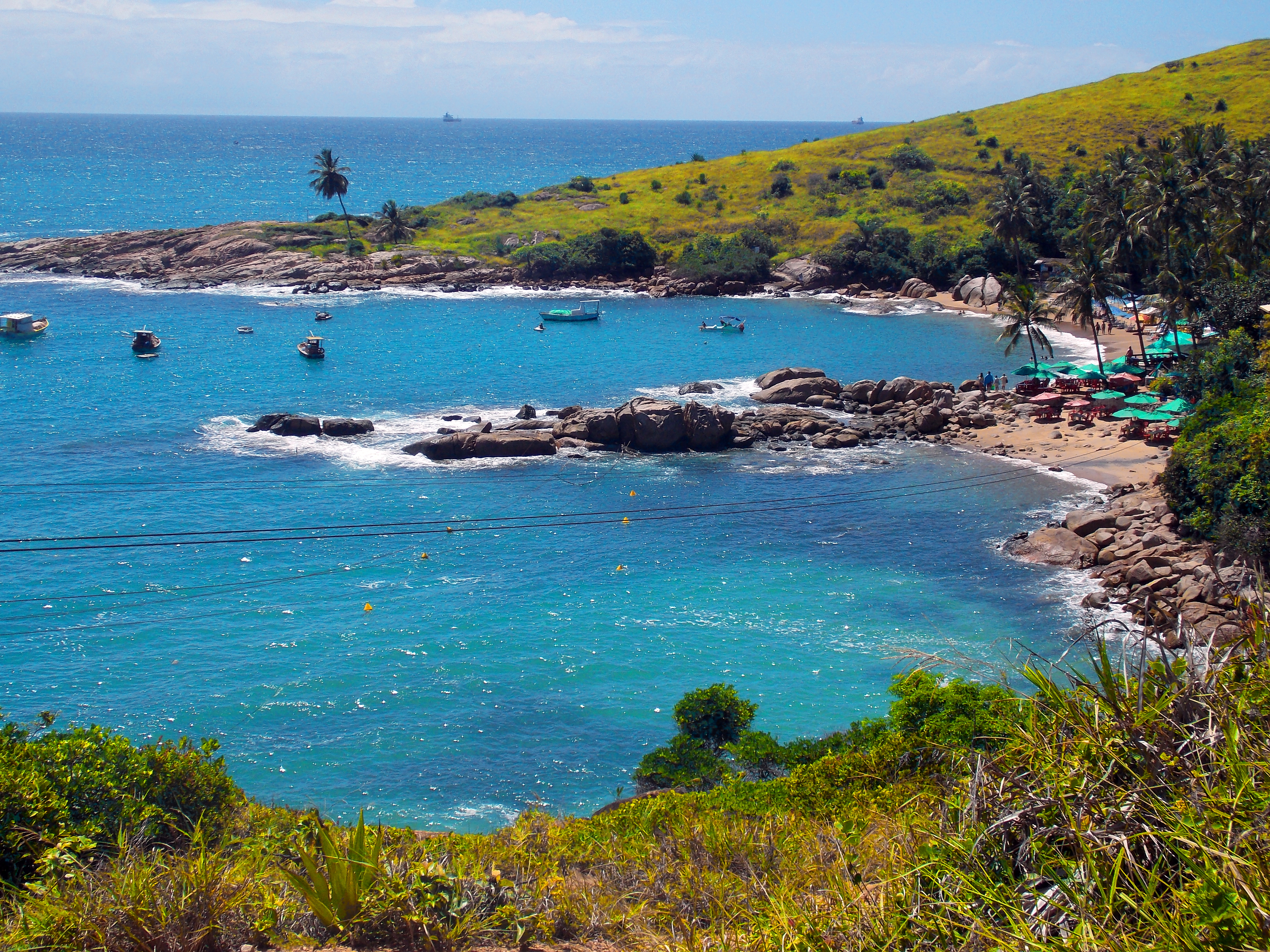 Brazil Natural resources, fauna and places